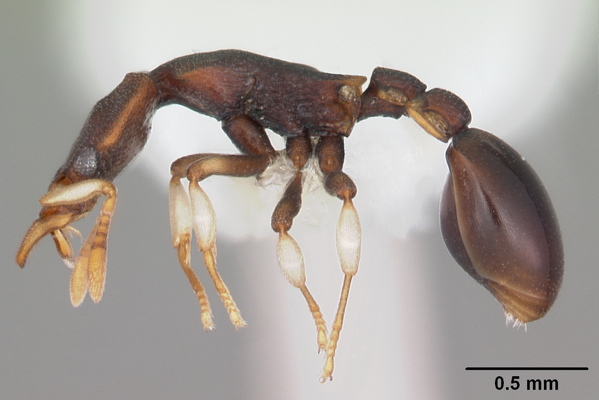 Profile view of ant Colobostruma foliacea specimen psw10121-13.